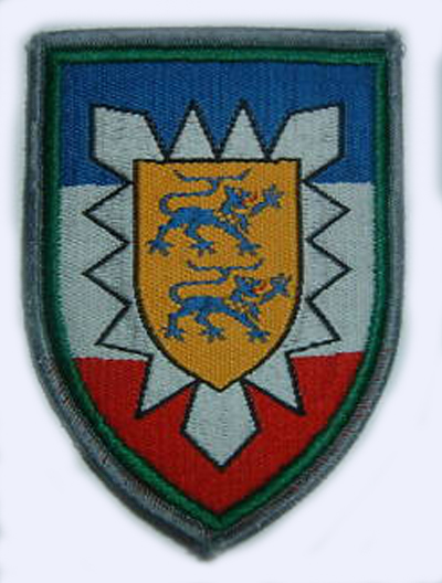 Home Defense Brigade 51